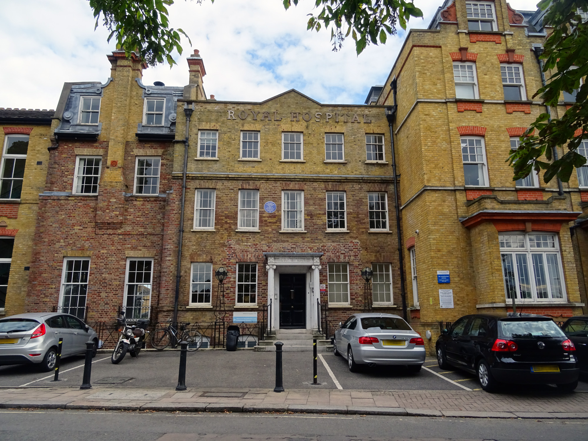 JAMES THOMSON 1700-1748 Poet Author of Rule Britannia lived and died here